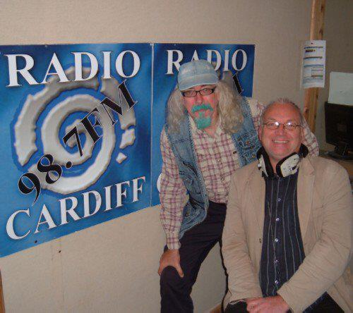 Steve Andrews as a guest on Steve Johnson's show at Radio Cardiff